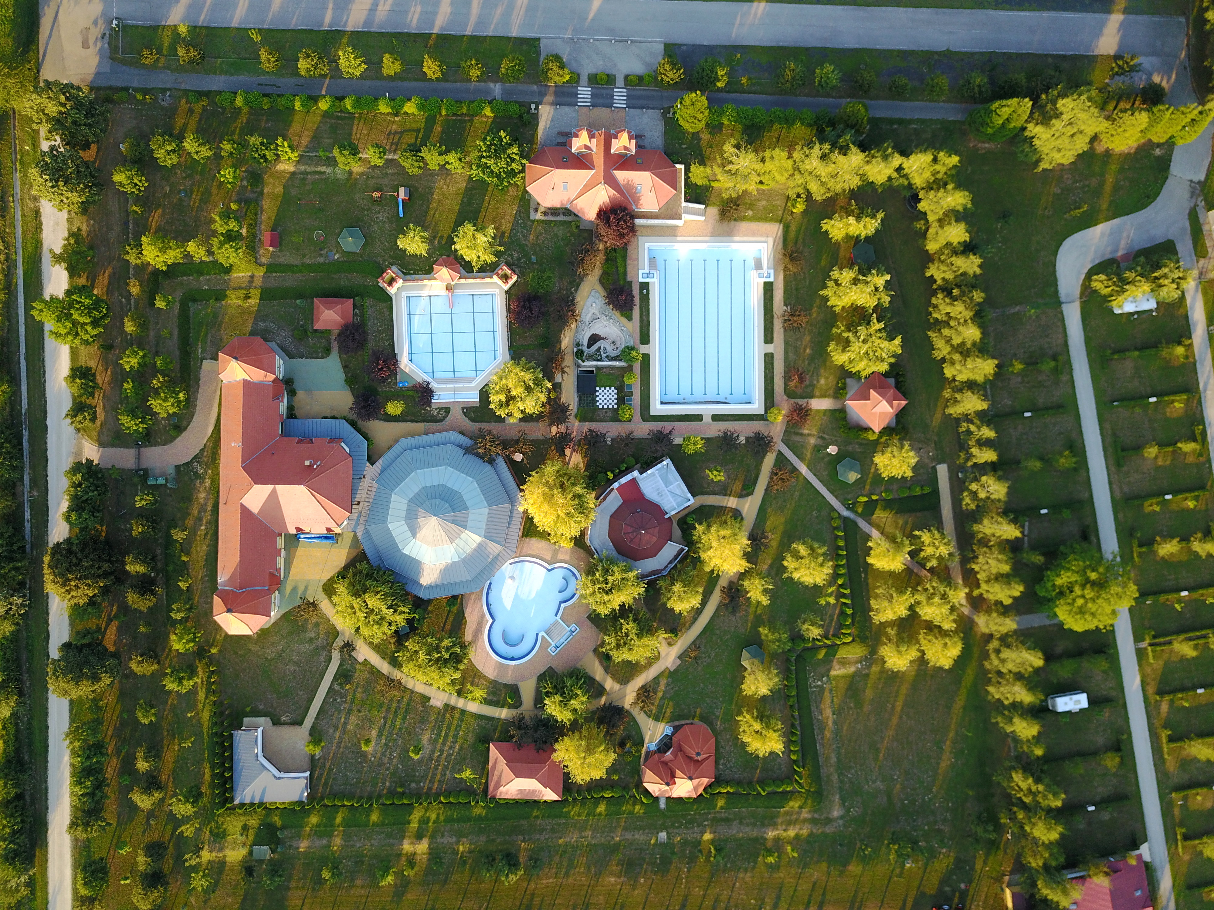 Aerial view of Aqua Barbara thermal bath in Pusztaszentlászló (Zala county, Hungary)